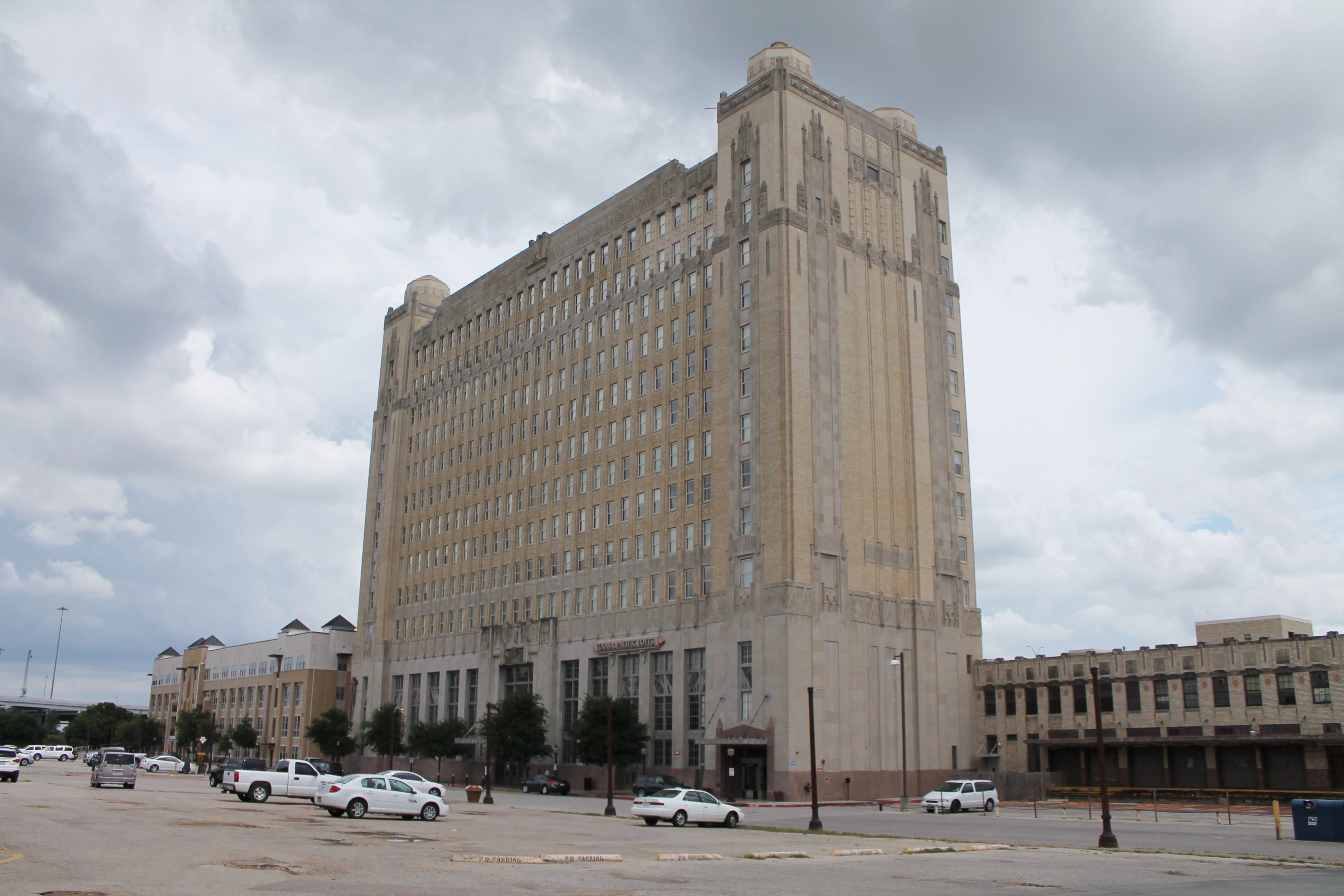 Texas and Pacific Terminal Complex in Fort Worth, Texas